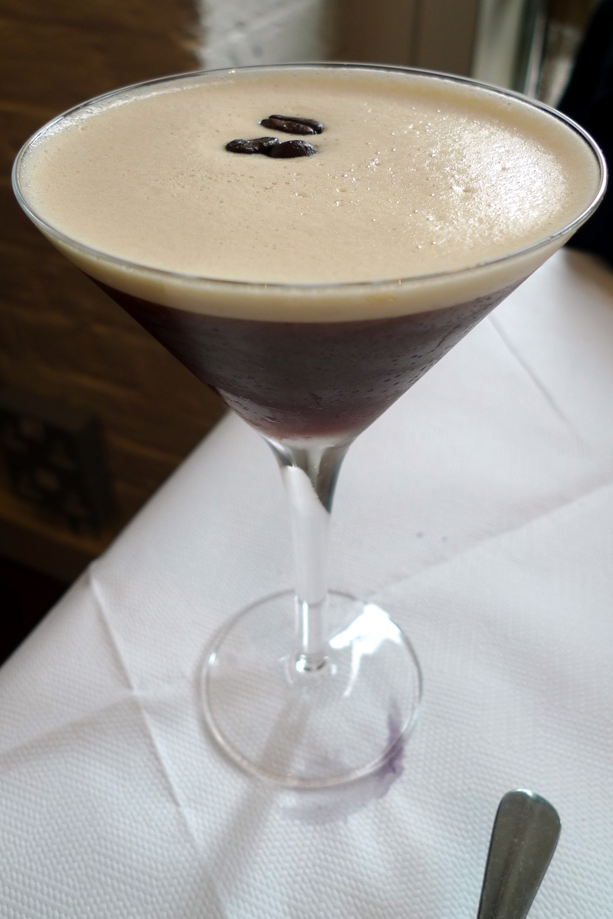 A very tasty espresso martini. At Bistrot Bruno Loubet, St Johns Square.